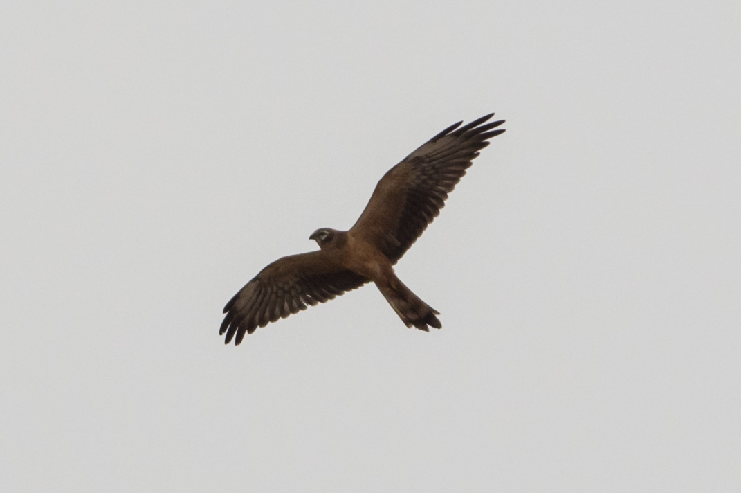 Juvenile Montagu´s Harrier at Gozo, Malta, trying to escape the hunters